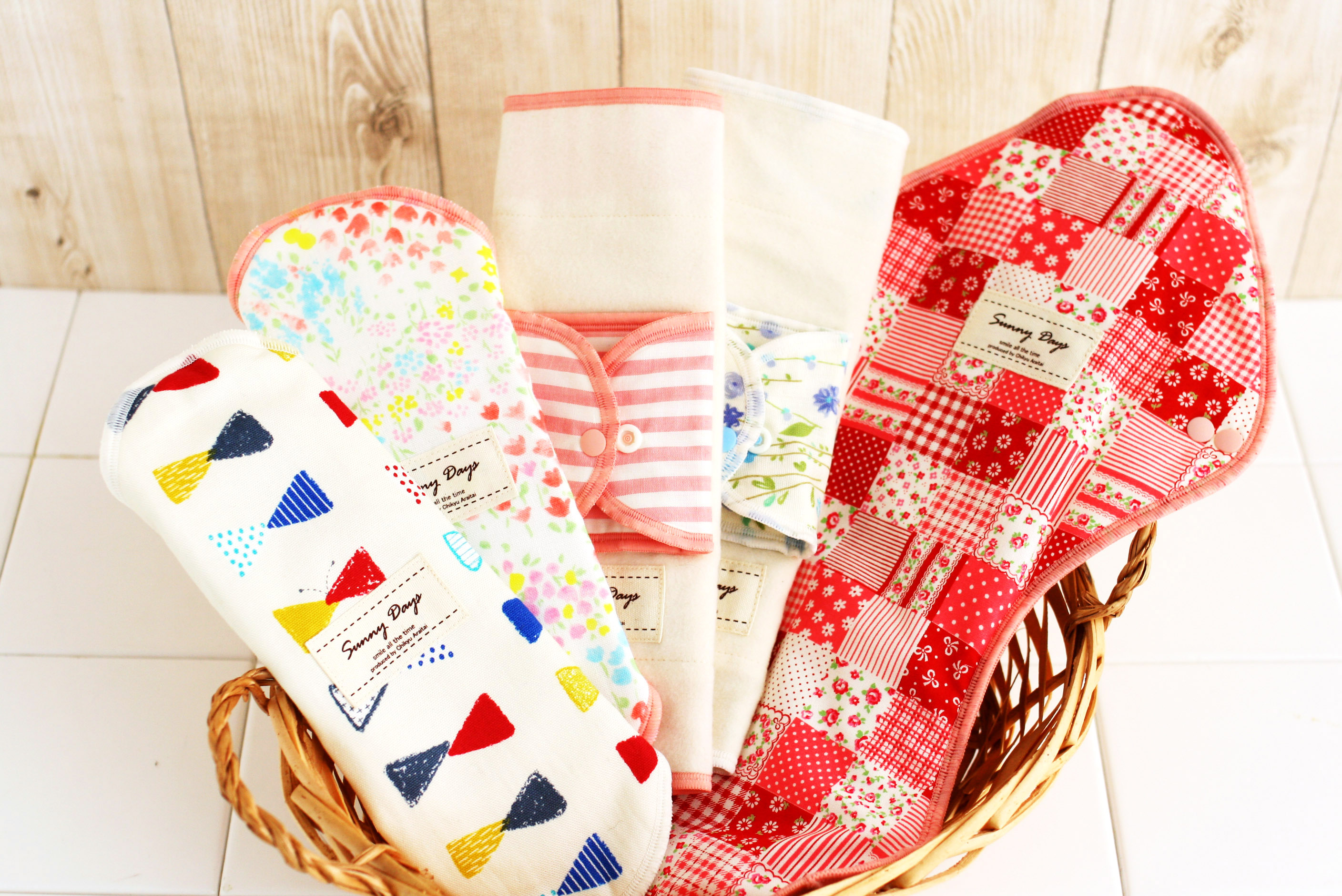 20150907-Sanitary towels,Sunny Days(UP SIDE)アップサイド社製布ナプキン